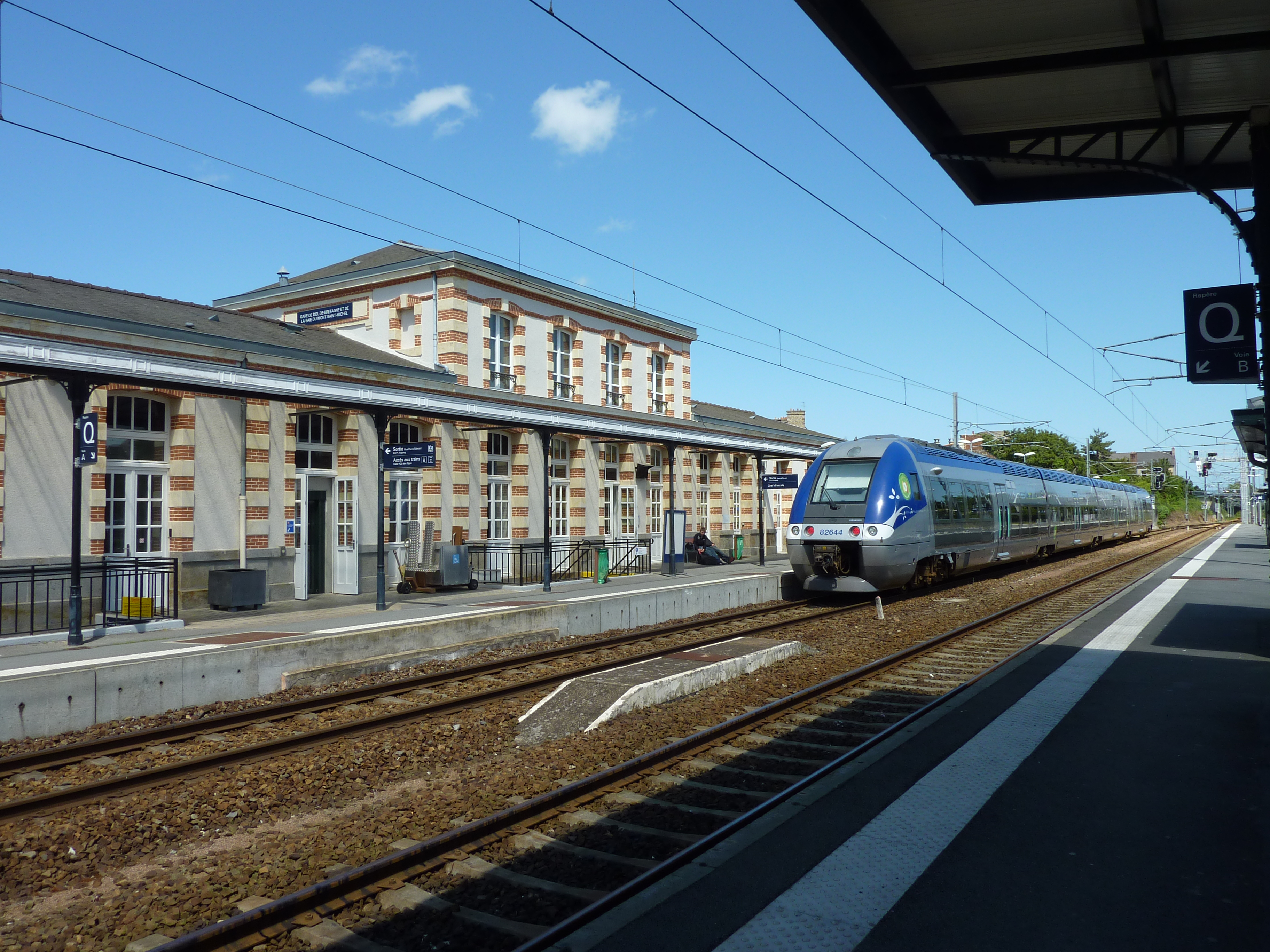 Train station Dol de Bretagne, in France